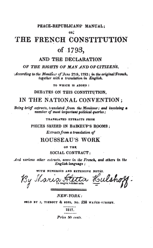 Reproduction (cleaned up scan) of title page of Maria Hulshoff's 1817 book on the French Constitution